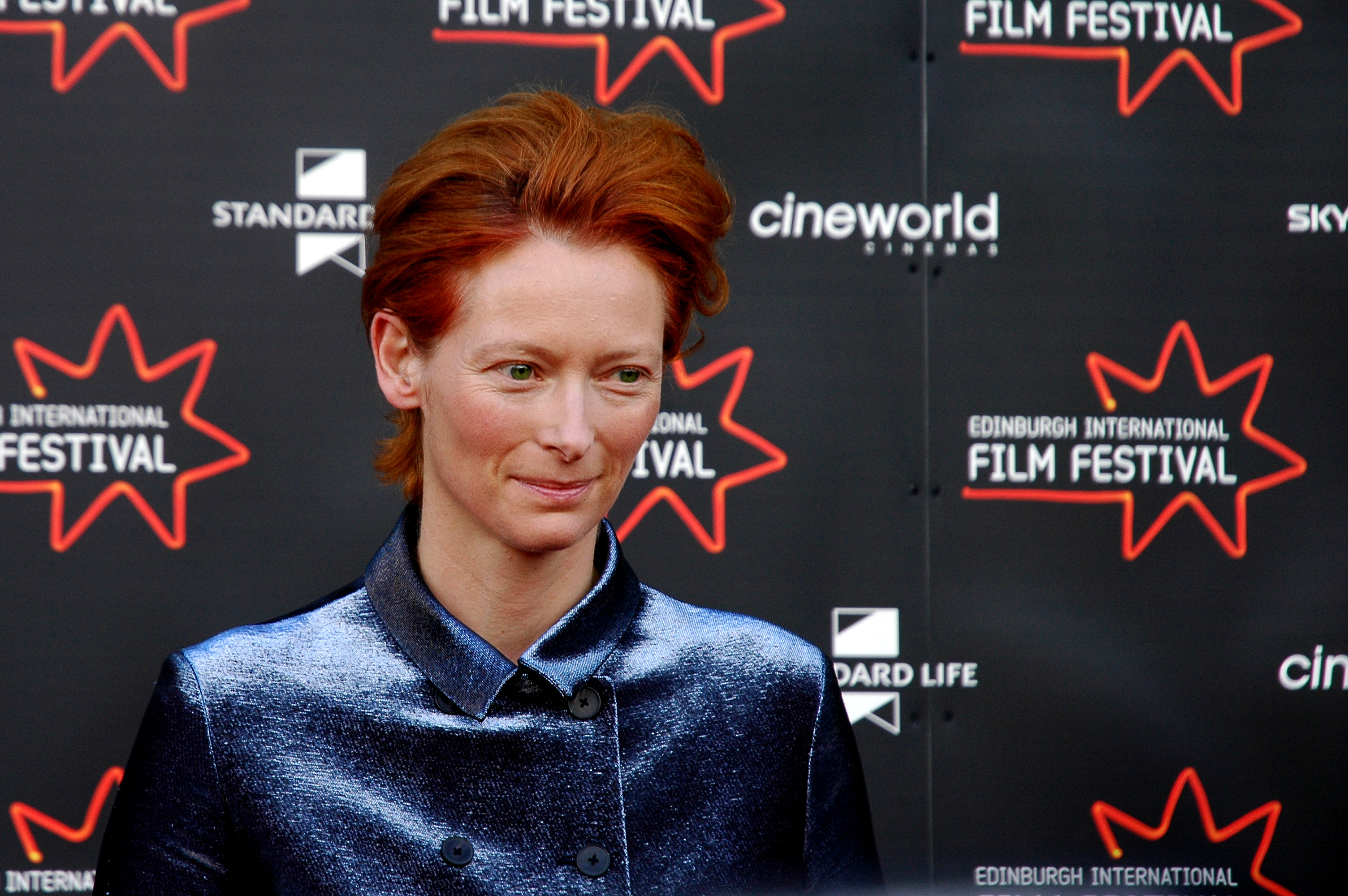 Tilda Swinton in Edinburgh, August 2007.